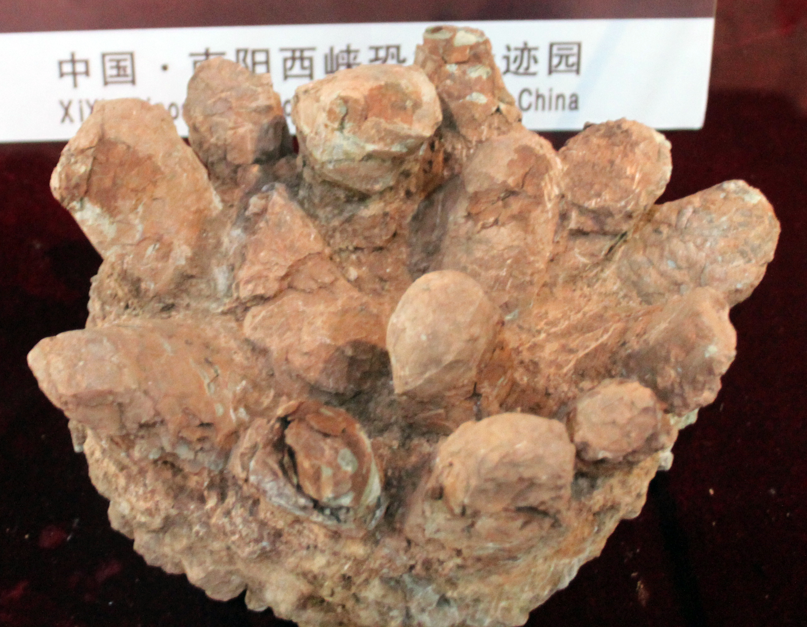 Prismatoolithus gebiensis dinosaur eggs from Xixia, southern Henan Province, in Xixia Dinosaur Park. Complete indexed photo collection at .